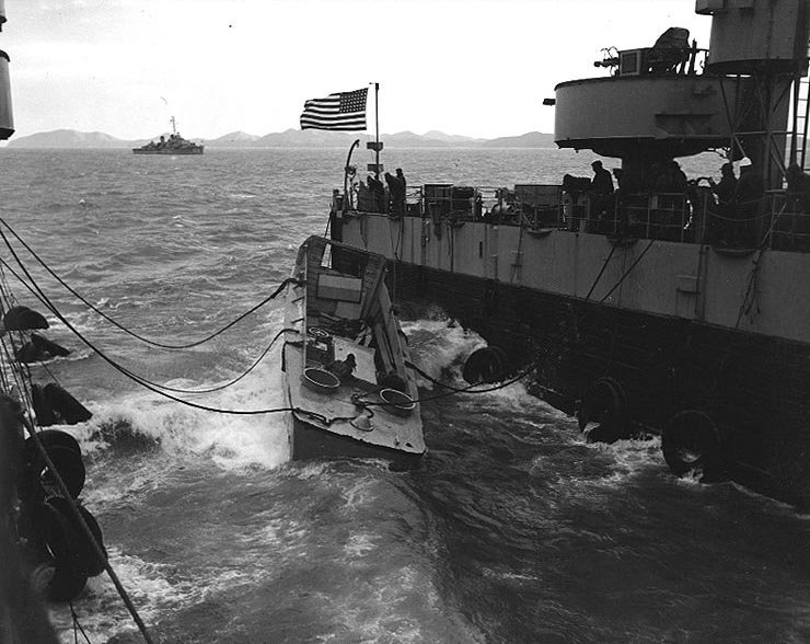 An LCVP bucks in the well of USS Catamount (LSD-17), during mine clearance operations off Chinnampo, North Korea, circa November 1950. USS Forrest Royal (DD-872), flagship for this operation, is in the left background.